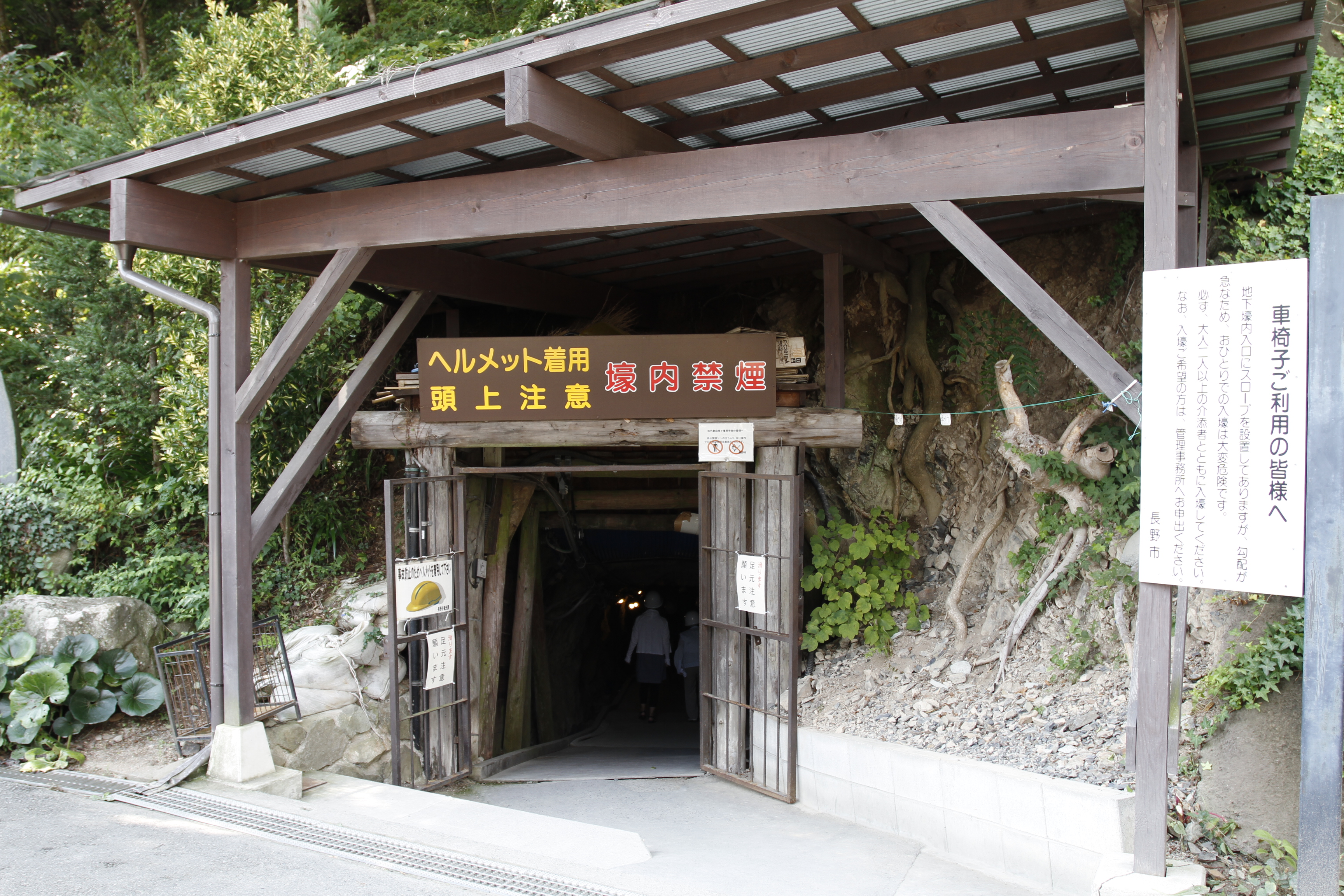 Matsushiro Underground Imperial Headquarters,Zouzan Underground Shelter